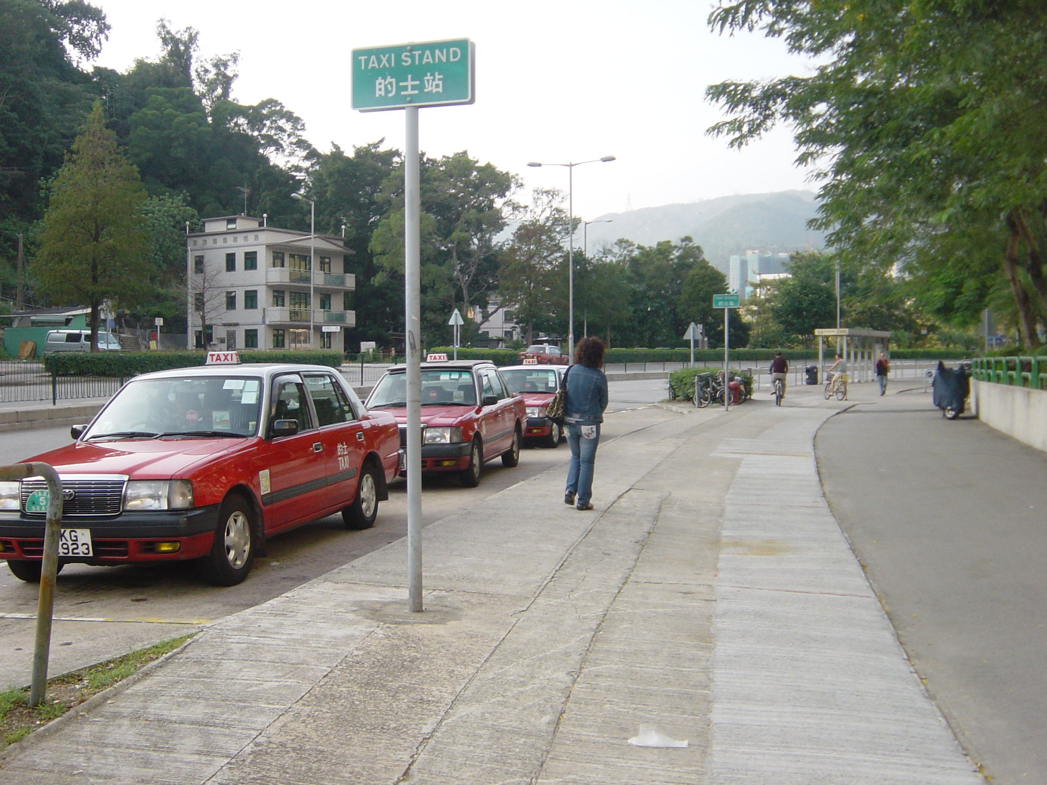 香港沙田一的士站。Taxi stand in Shatin, Hong Kong. Sha Tin Tau Road, in front of Chun Shek Estate.